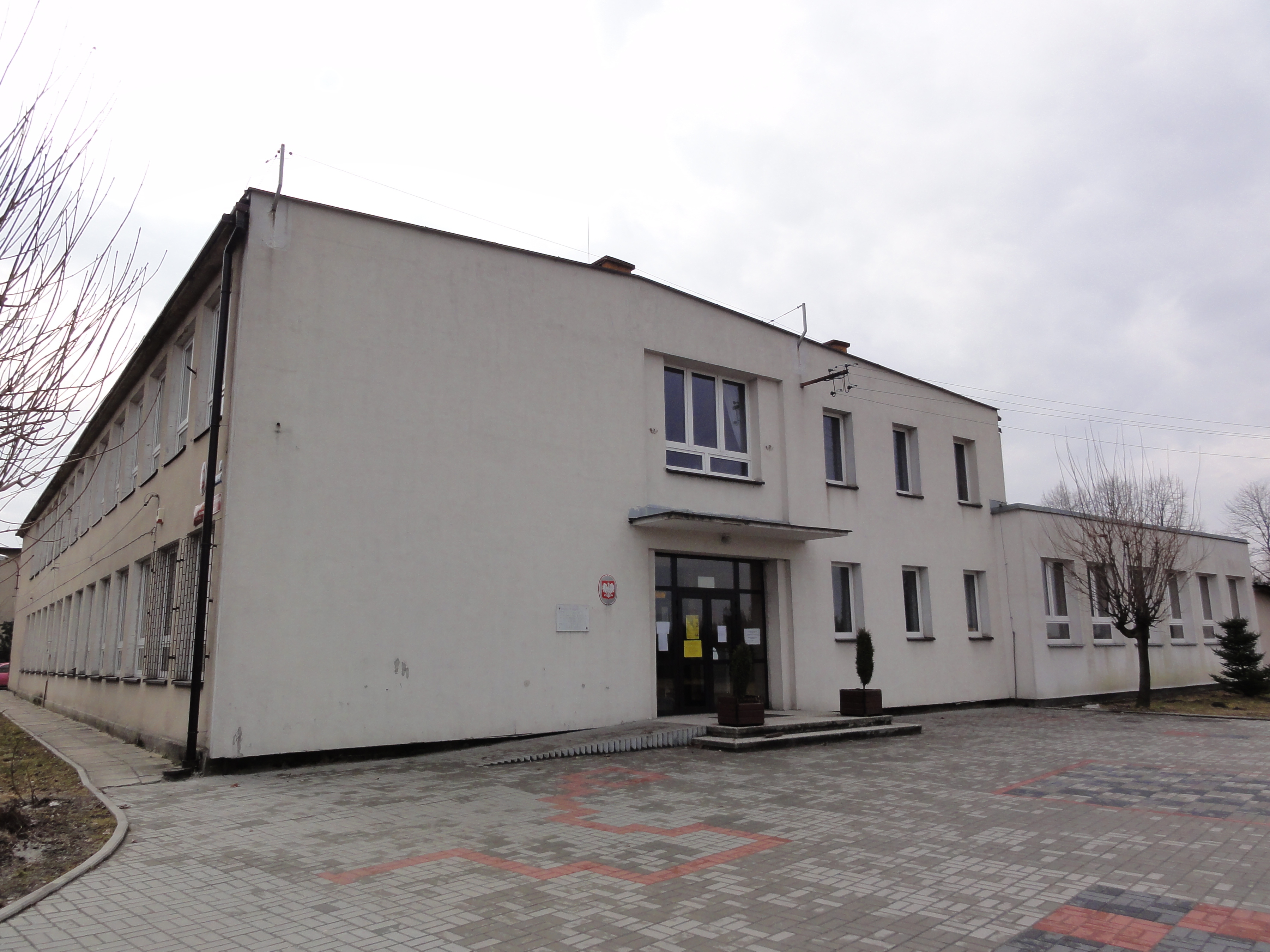 Kindergarten and elementary school in Zaborze